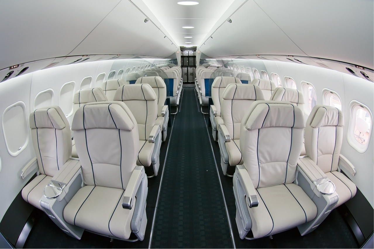 Mock up of the MS-21 passenger cabin